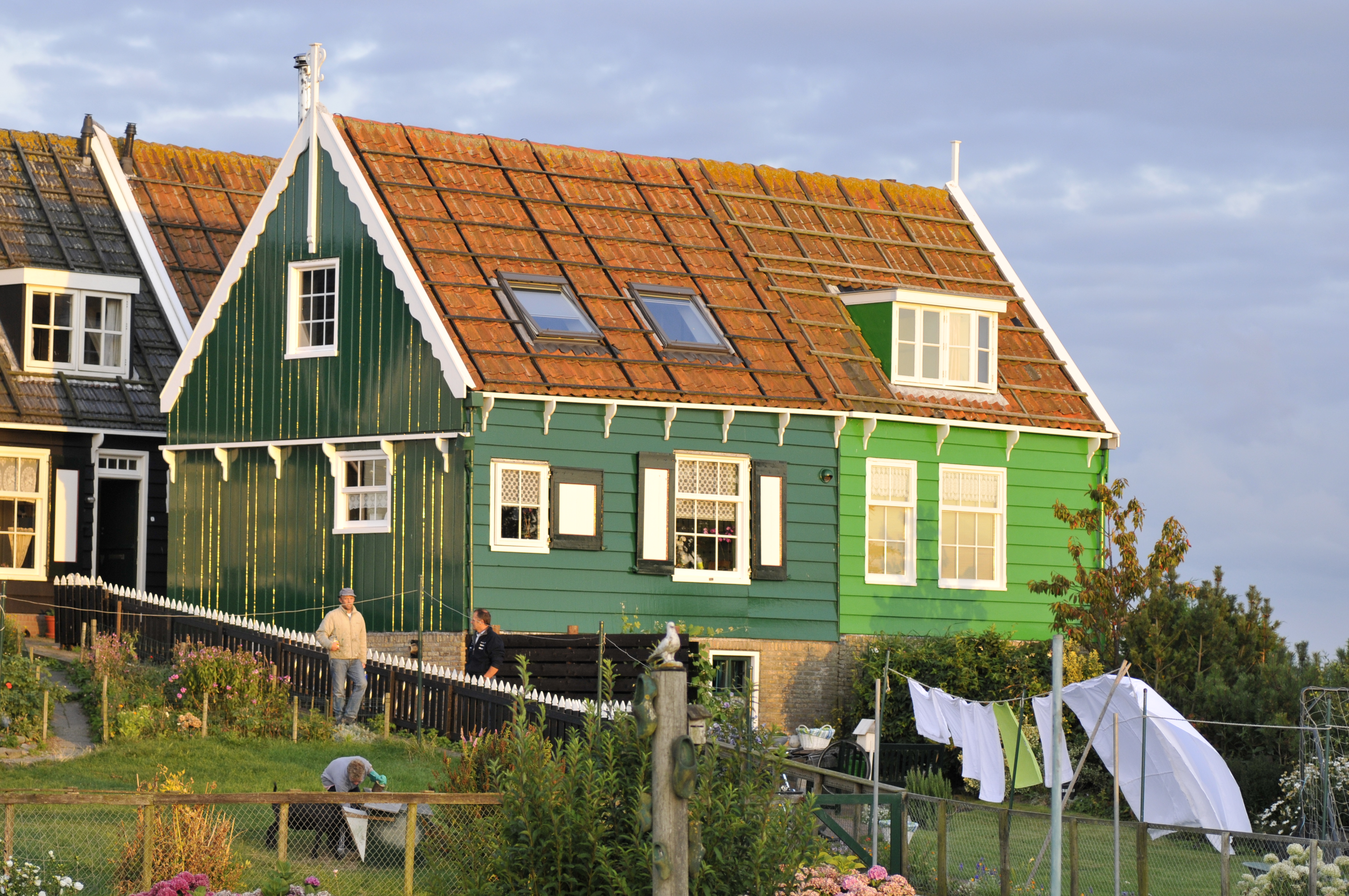 Grotewerf 21 and 22 in Marken, the Netherlands. On the left side number 21 on the right side number 22. The picture has many small details like the woman with the goat and the talking neighbors.